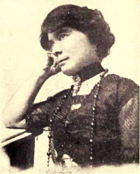 Photograph of Teresa Brayton in Songs of the Dawn and Irish Ditties, 1913, no longer in copyright.